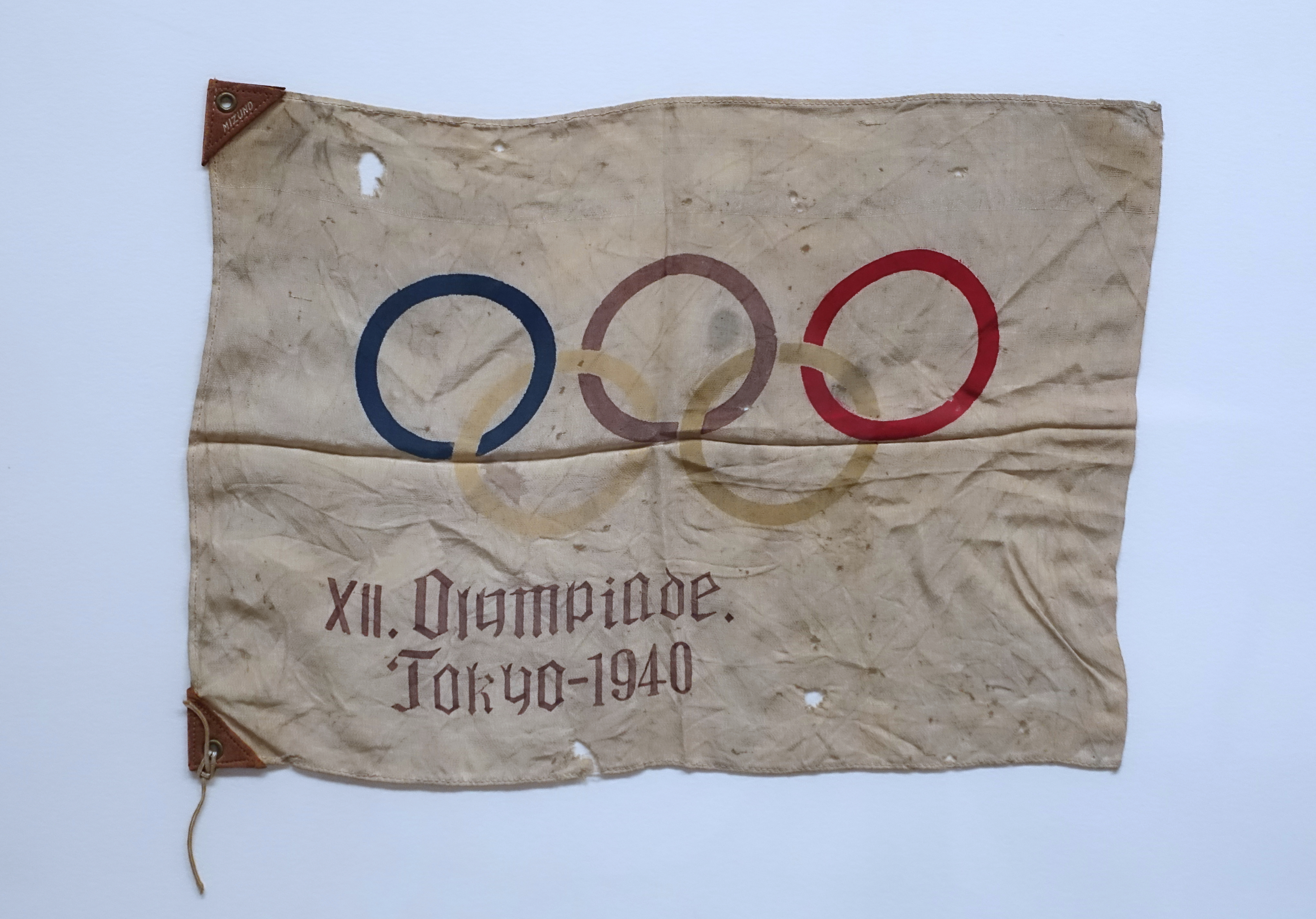 Twelfth Tokyo Olympics (1940 Summer Olympics) souvenir handflag, 1936 AD - Edo-Tokyo Museum - Sumida, Tokyo, Japan